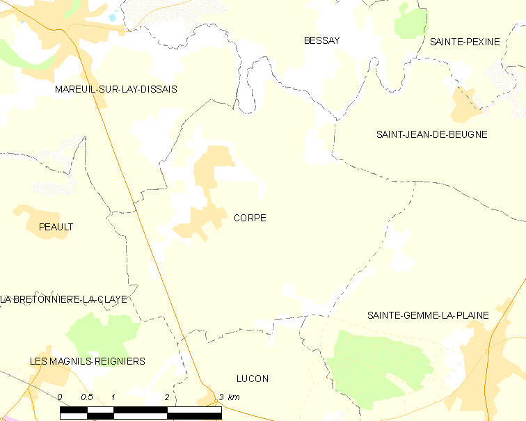 Map of French municipality Corpe